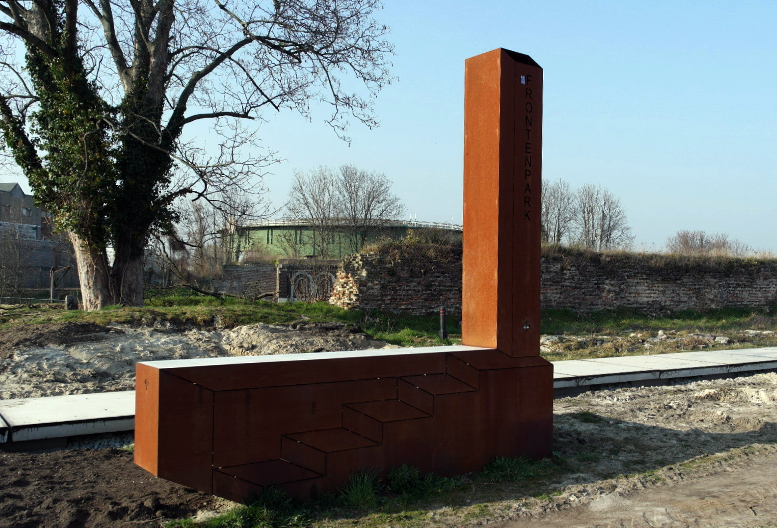 Maastricht, the Netherlands. View towards the northwest of Frontenpark, a newly-developed park on the northwest side of the old city, incorporating remnants of the Nieuwe Bossche Fronten, the low-lying fortifications and water-filled ditches dating from 1816-1823, and several industrial relics. In the foreground a monument marking the redevelopment of the park; in the background the 1954 gasometer.